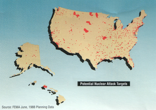 Nuclear map of the United States